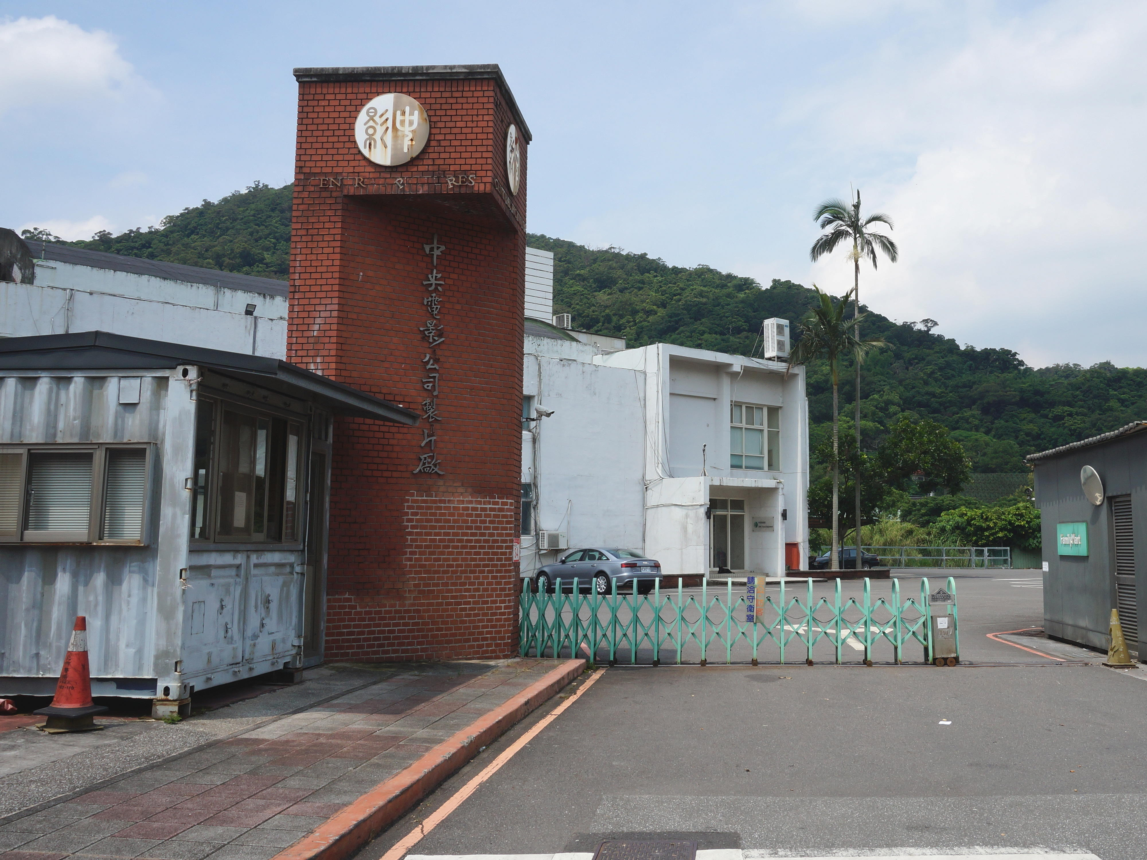 The main gate of Central Motion Picture Corporation Studio.